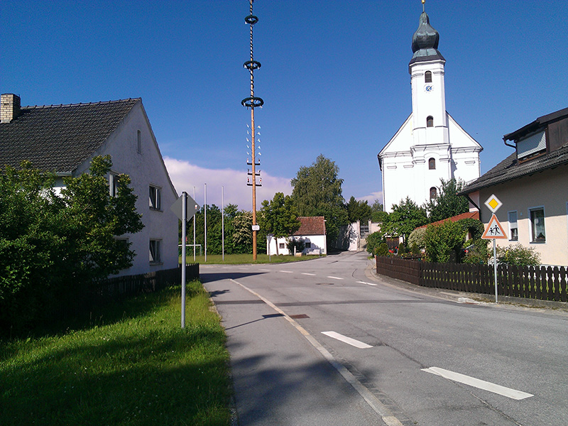 Dorfplatz und Kirche in Rettenbach